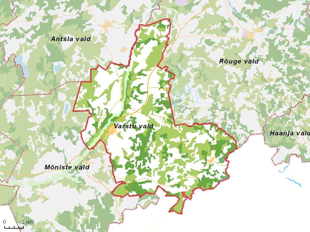 Map of municipality in Estonia